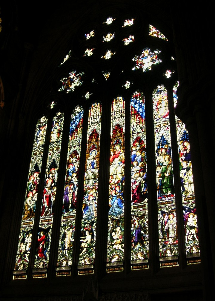 Sydney, St Marys Roman Catholic Cathedral, interior